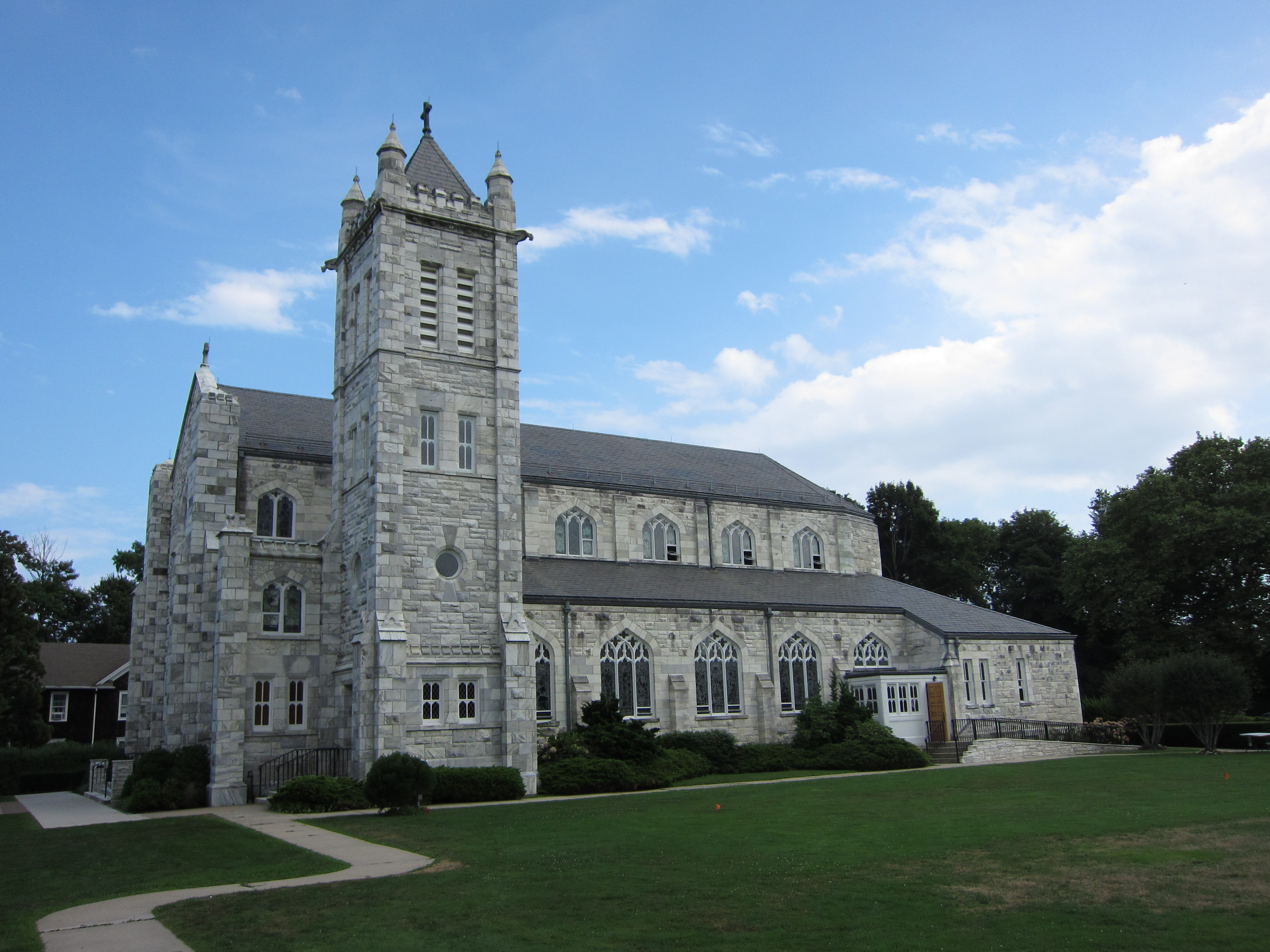 Sacred Hearts of Jesus and Mary Roman Catholic Church, 168 Hill Street, Southampton, New York.